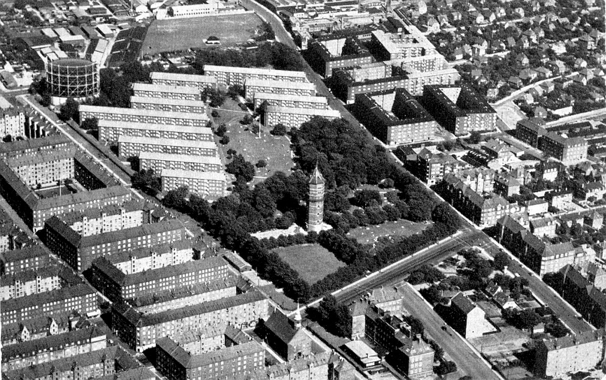 An aerial showing Lergravsparken in Amger, Copenhagen, Denmark. A gasometer from the former Sundby Gasworks, Sundby Water Tower (now demolished) and the Sundbyparken housing estate is clearly visible.